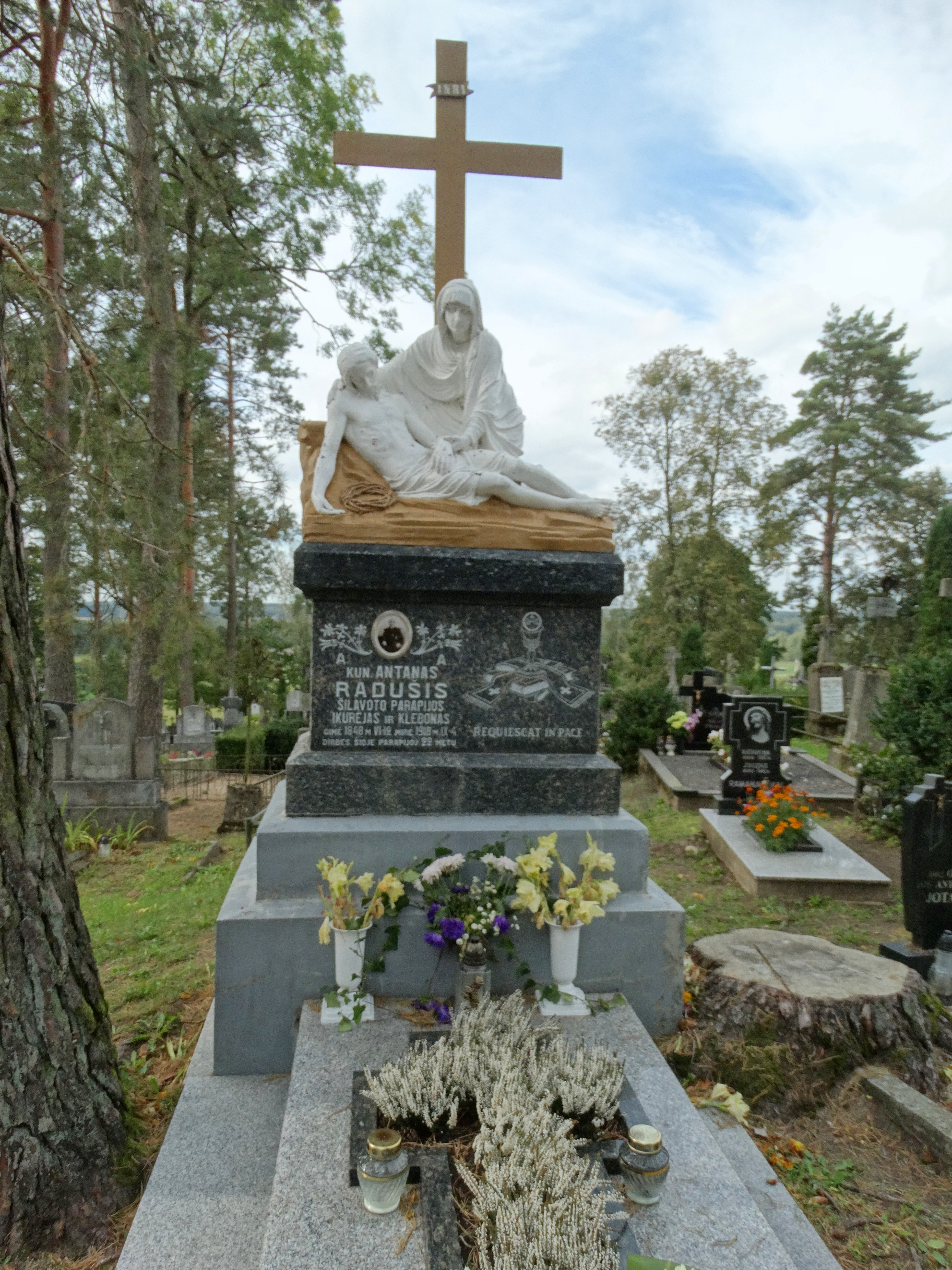 Tomb of Antanas Radušis in Šilavotas, Prienai district, Lithuania